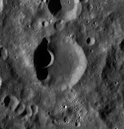 Walker lunar crater - image source LRO WAC.